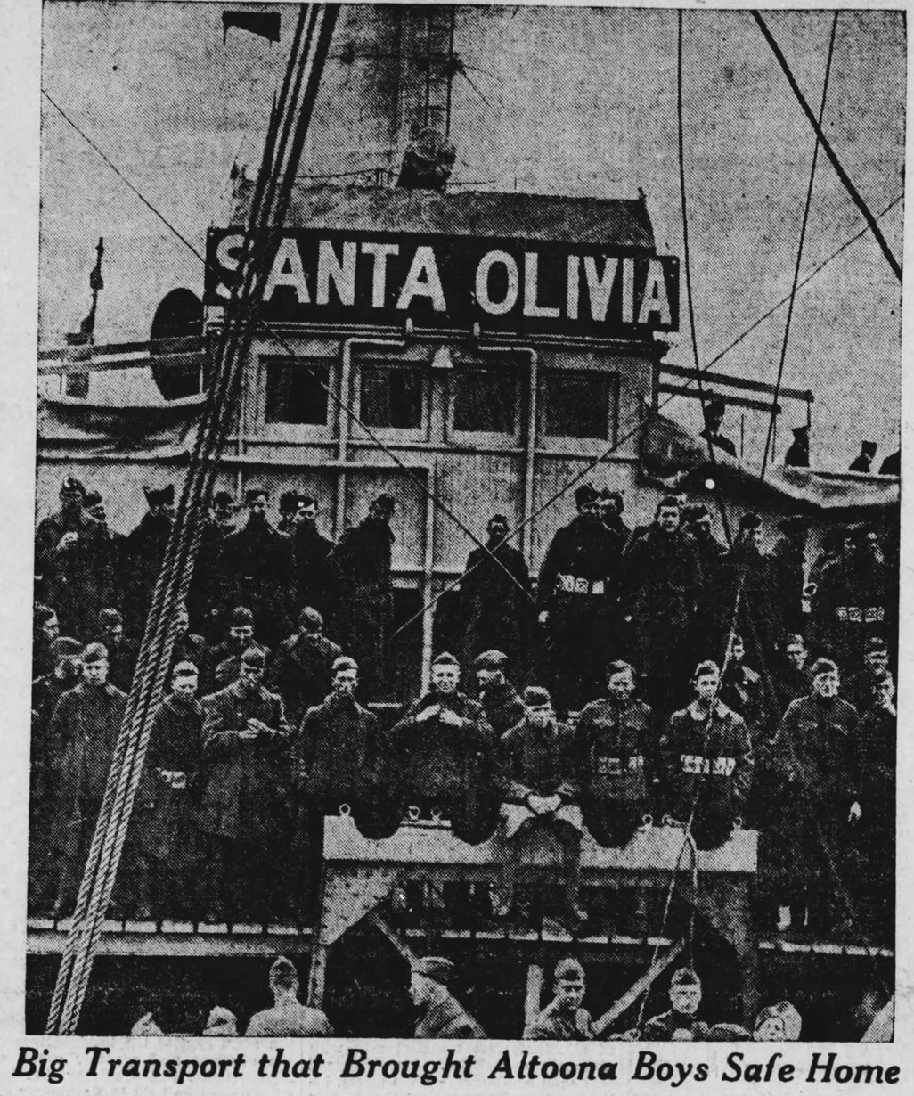 The troop transport USS Santa Olivia (SP-3125) returning troops from France to the United States after World War I.